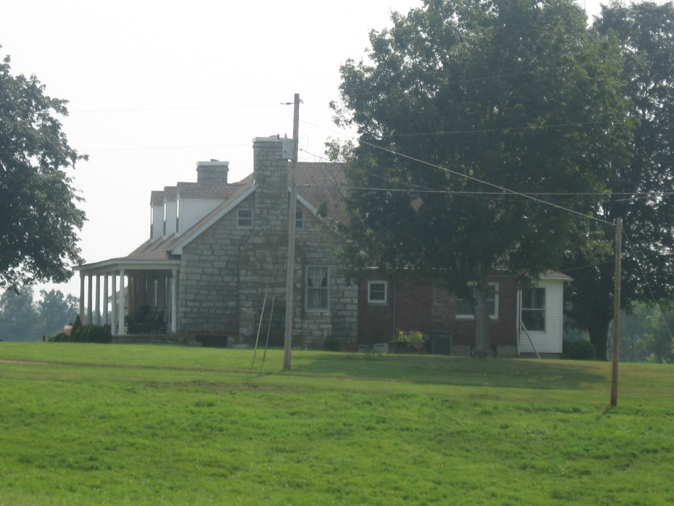 Eastern side of the John Chandler House, located off Kentucky Route 210 northwest of Campbellsville in Taylor County, Kentucky, United States. It is listed on the National Register of Historic Places.